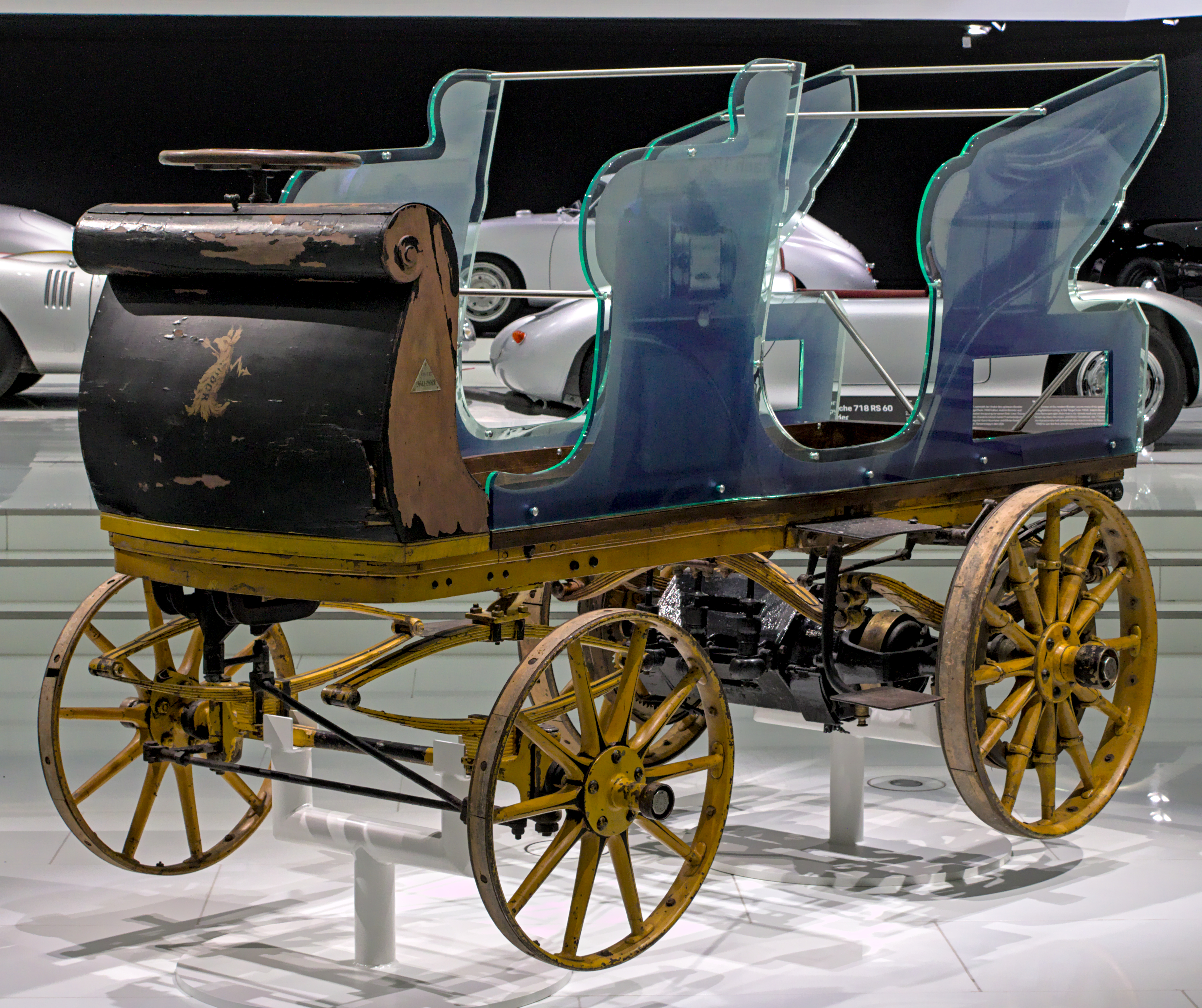 Egger-Lohner_C2_Phaeton_in_the_Porsche-Museum_(2009) in Stuttgart